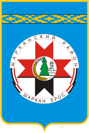 Sharkan rayon (Udmurtia), emblem